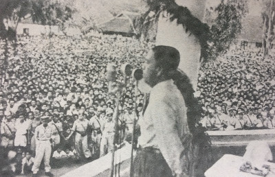 Arnold Mononutu giving a speech in Garut on 10 Juli 1951